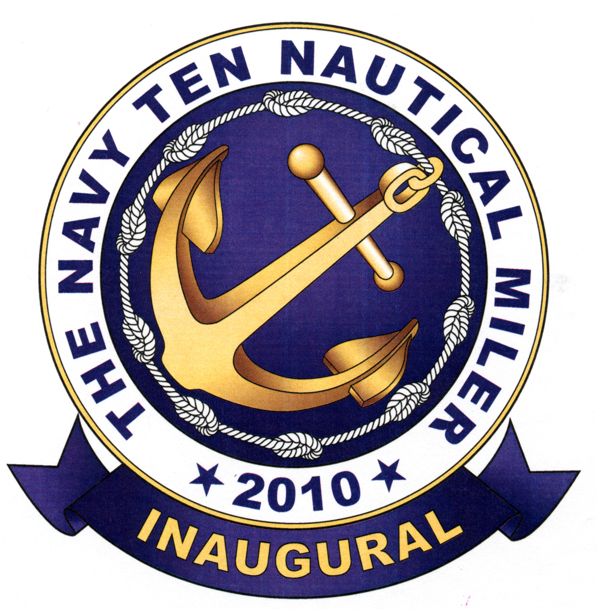 MILLINGTON, Tenn. (Jan. 28, 2010) The inaugural run of the Navy Ten Nautical Miler road race will take place June 6, 2010, at the Naval Support Activity Mid-South in Millington, Tenn. (U.S. Navy photo illustration/Released)